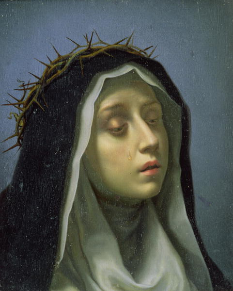 Caterina da Siena, o/tv, 23 x 19 cm, Dulwich College Picture Gall., London